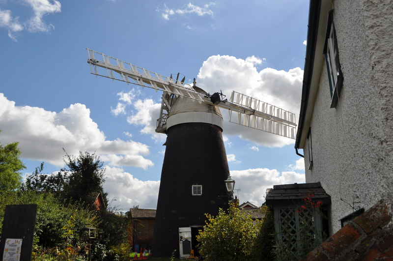 Bardwell Windmill, near to Bardwell, Suffolk, Great Britain. Since my last visit the sails have been fitted TL9473 : Bardwell Windmill , the other set has arrives for assembly and painting. The mill will soon be able to grind flour, some attention is needed to the stone though.